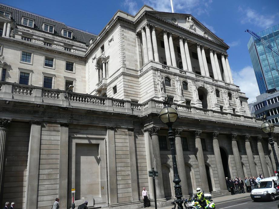 Bank of England